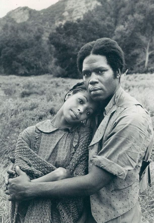 Photo of Lynne Moody and Georg Stanford Brown in the television miniseries Roots.